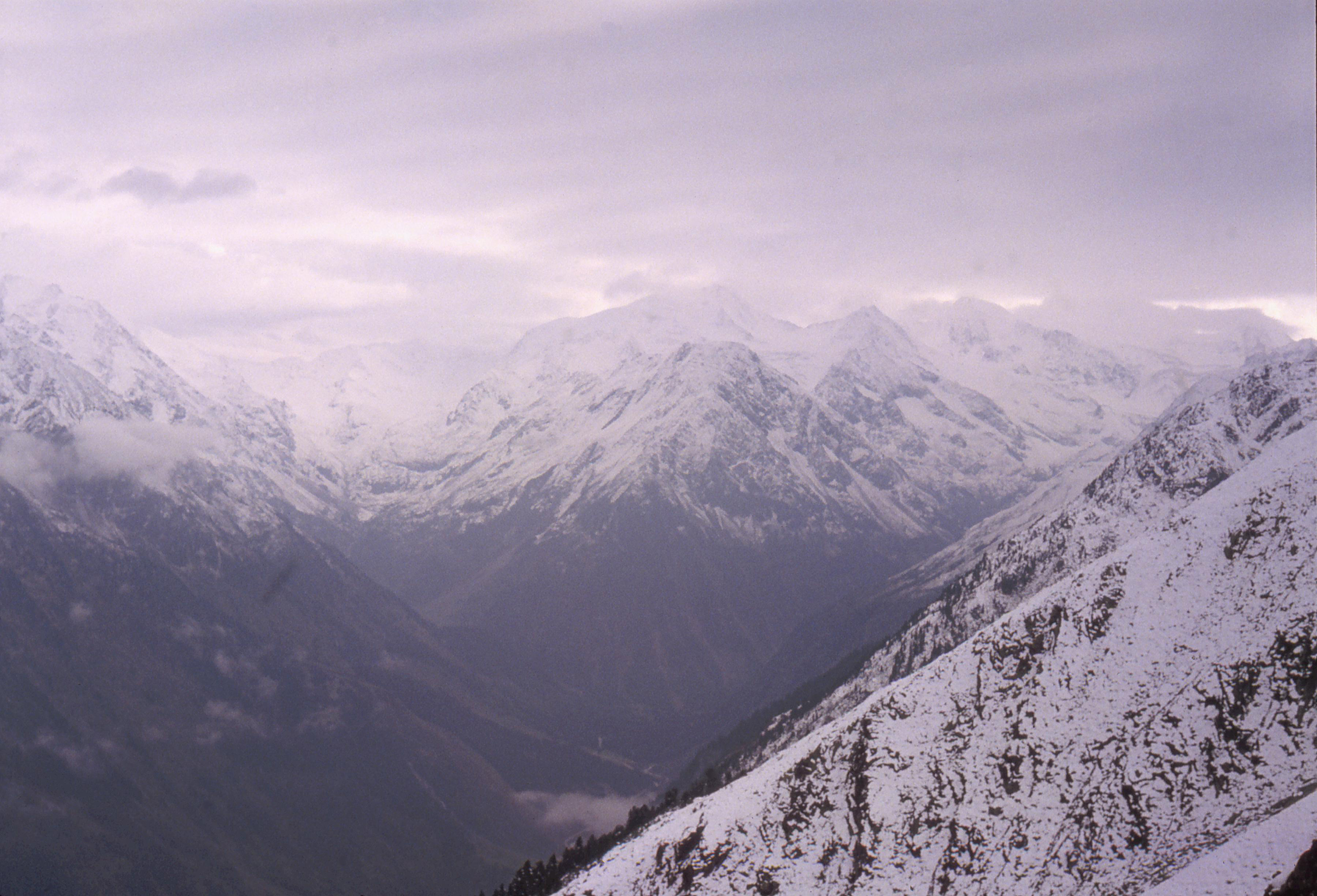 Stubaital from Huhnerspiel, Autumn 1981